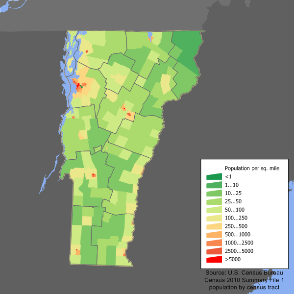 Population map of Vermont, updated with 2010 census data.